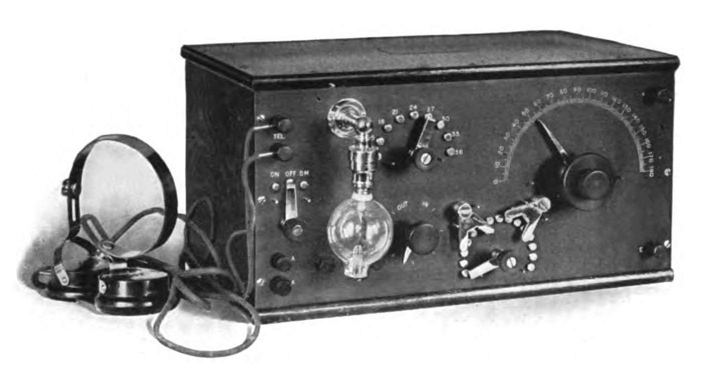 One of the first amplifying radio receivers, the De Forest Type RJ6 receiver made by the De Forest Radio Telephone and Telegraph Co., from an advertisement in a 1915 trade journal. It was a one-tube radio that used the Audion (triode), the first amplifiying vacuum tube, invented by Lee De Forest in 1906, both as a detector to rectify the radio signal, and as an audio amplifier. The Audion is mounted on the front panel so the operator can see if the filament is lit, and adjust the filament current by its brightness. The Audion is mounted upside down, with the delicate filament hanging down so it won't sag and touch the grid. The large dial on the right is the tuning, the multiposition switch in upper center adjusts the plate voltage, and the multiposition switch in lower center adjusts the filament current. The single Audion did not produce enough audio power to drive a loudspeaker, so the headphones at left are used for listening. The advertising copy surrounding the picture read: "AUDION RECEIVING CABINET TYPE RJ6 Incorporating the Famous De Forest Audion Detector, The Most Efficient Receiving Set For Experimental And General Purposes Ever Offered For Less Than $500"